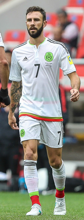 Portugal - Mexico, 2 Jul 2017